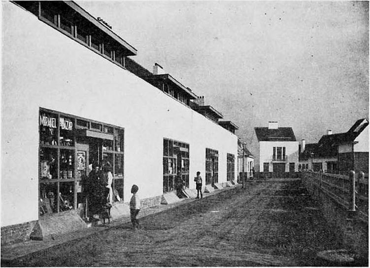 J.J.P. Oud (architect). Housing estate Oud-Mathenesse, Rotterdam. 1923-1924 (now demolished).